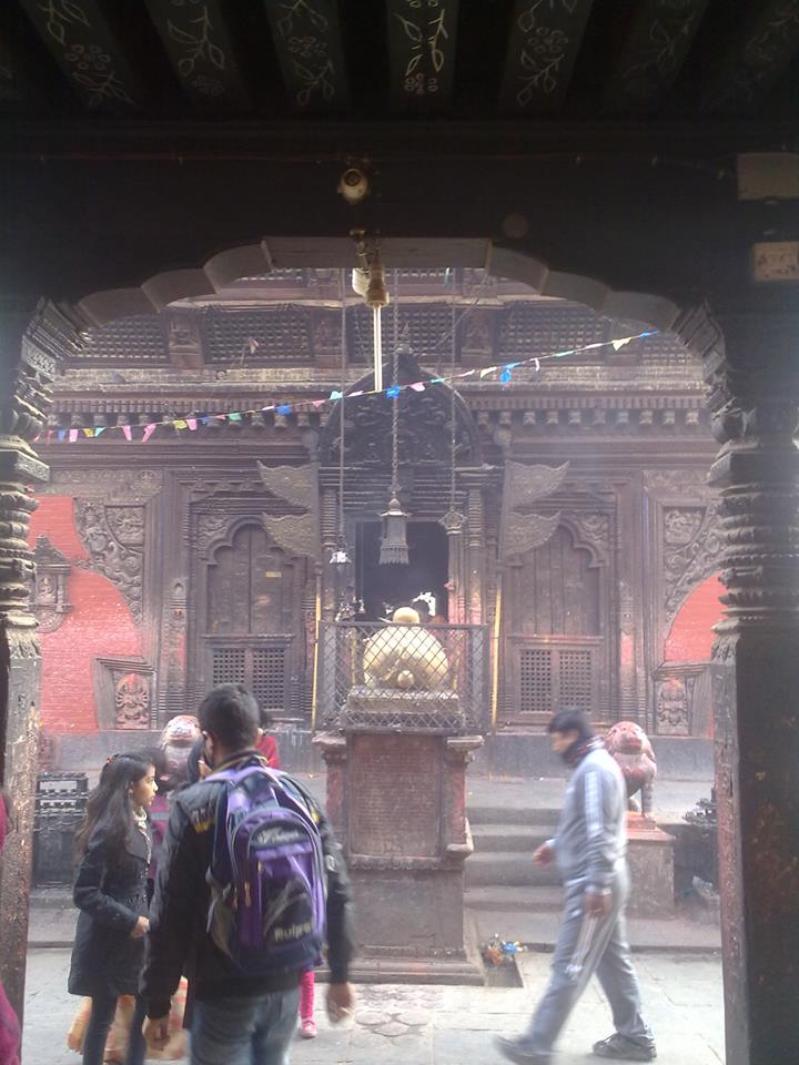 Bangalamukhi temple complex at Lalitpur,Nepal